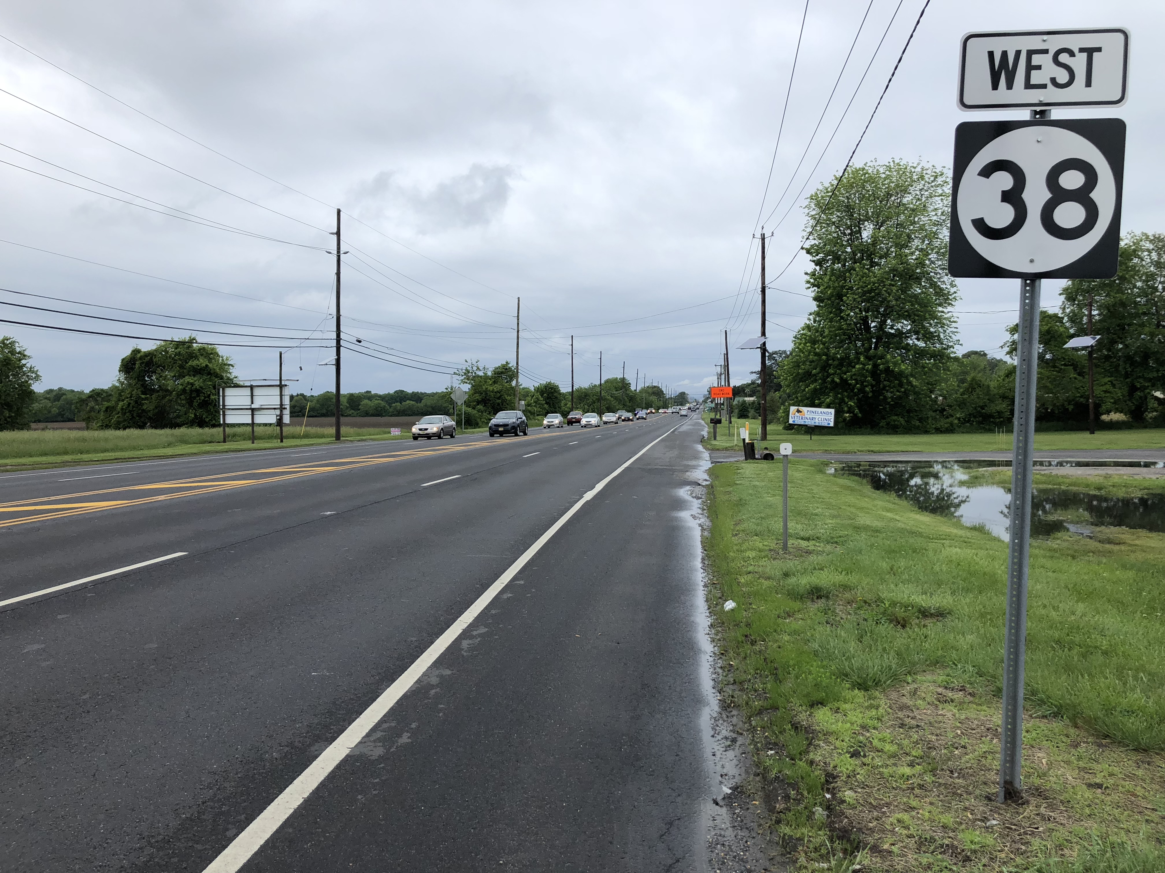 View west along New Jersey State Route 38 at U.S. Route 206 in Southampton Township, Burlington County, New Jersey